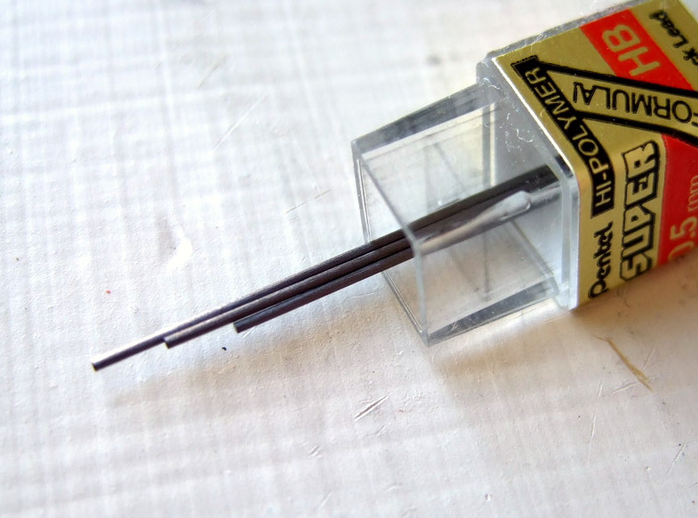 Mechanical pencil leads spilling out of their plastic case.